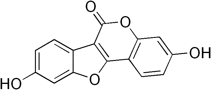 chemical structure of coumestrol